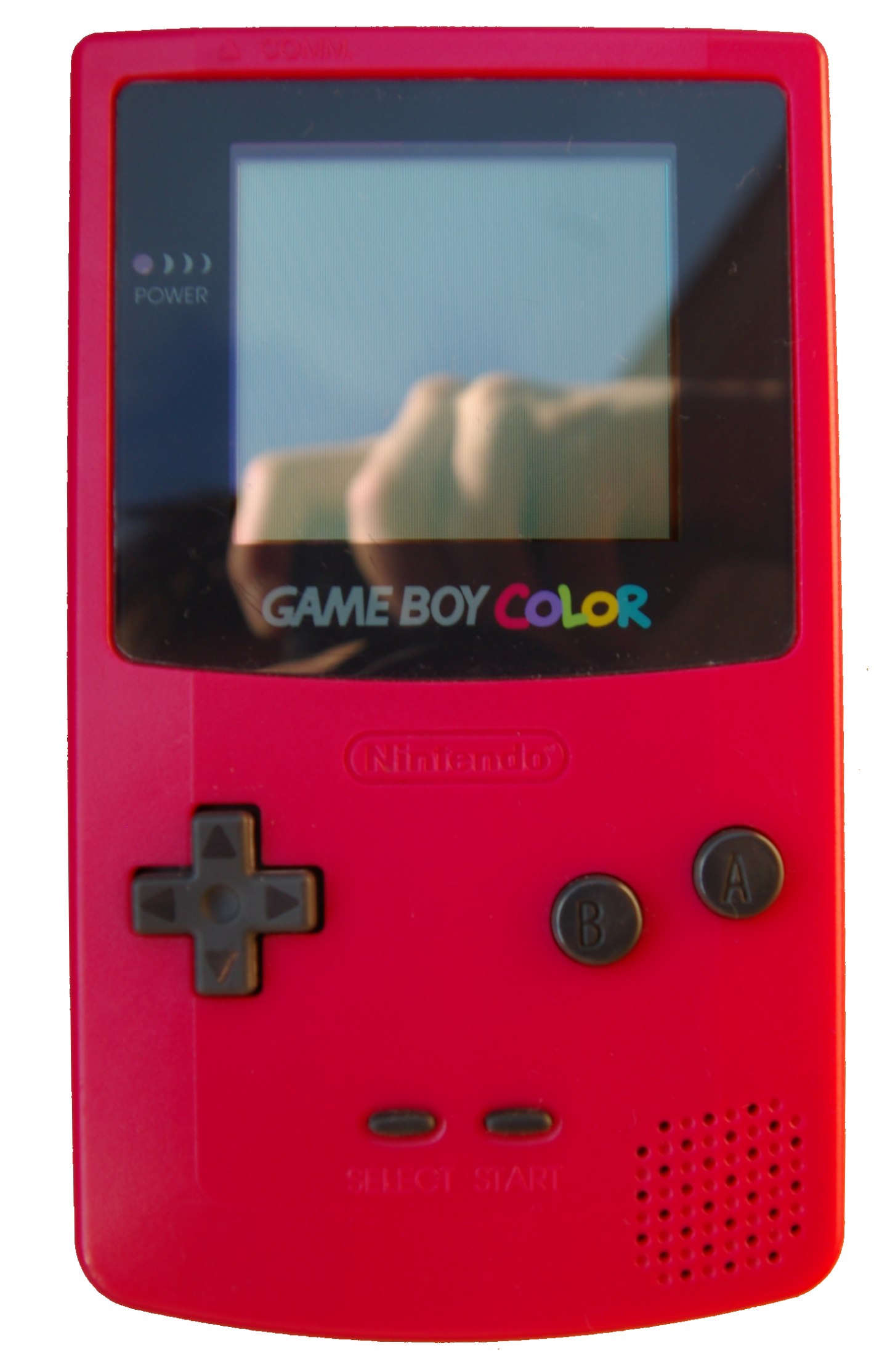 Game Boy Color